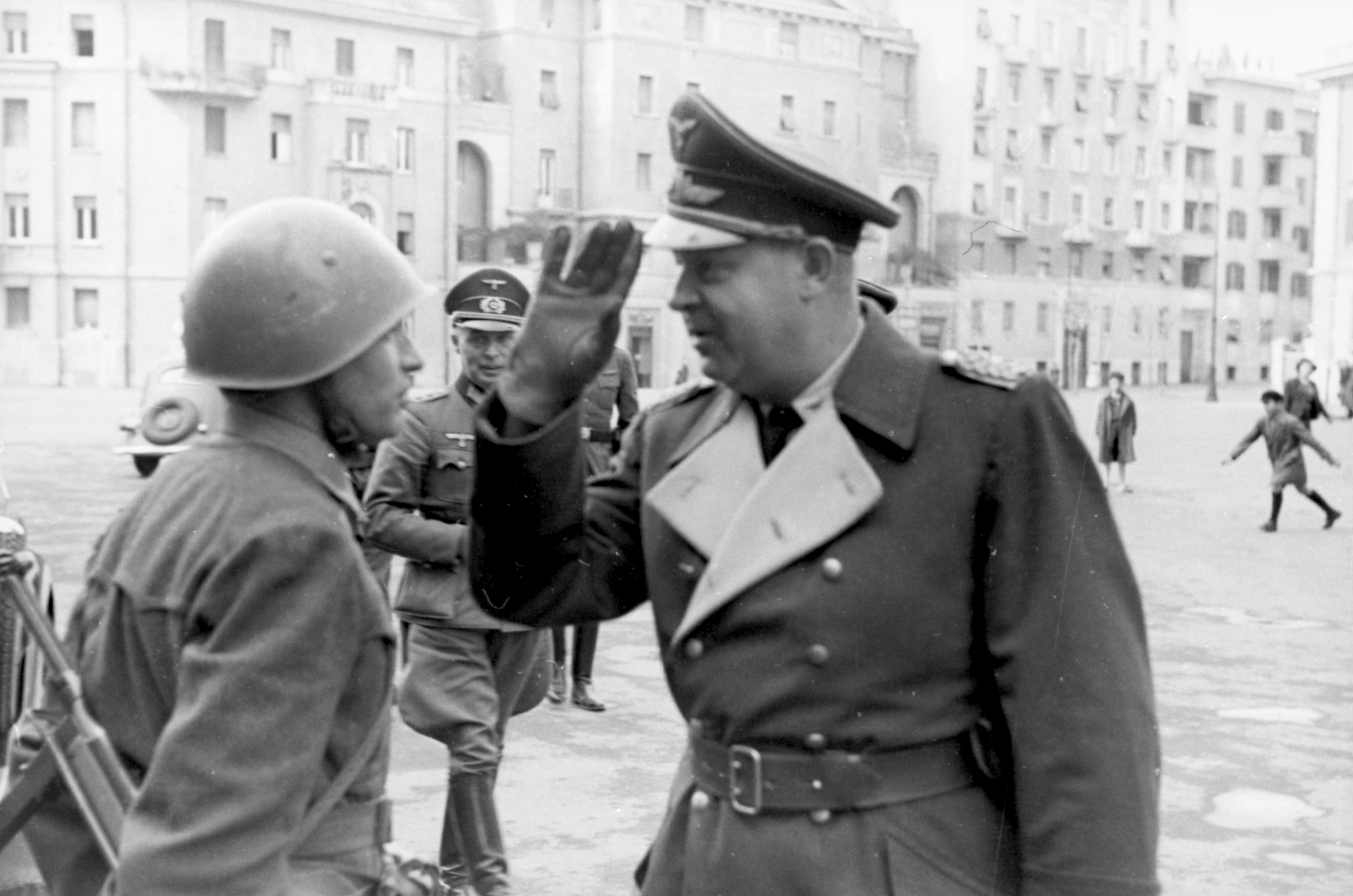 Roma, Italia, marzo 1944. Il generale della Luftwaffe Kurt Mälzer ispeziona truppe della Decima MAS (Repubblica Sociale Italiana), schierate in viale Carso, presso piazza Bainsizza, rione Prati, in occasione del loro dispiegamento sul fronte della testa di ponte alleata ad Anzio - Nettuno a sud di Roma. Information added by Wikimedia users.Rome, Italy, February - March 1944. General der Luftwaffe Kurt Mälzer (see here) inspecting Italian troops of the X MAS (belonging to the RSI Navy, and fighting as allied of the Germans) standing in piazza Bainsizza (Prati district, see here), around the time this unit was deployed to counter the Allied beachhead at Anzio - Nettuno, south of Rome.